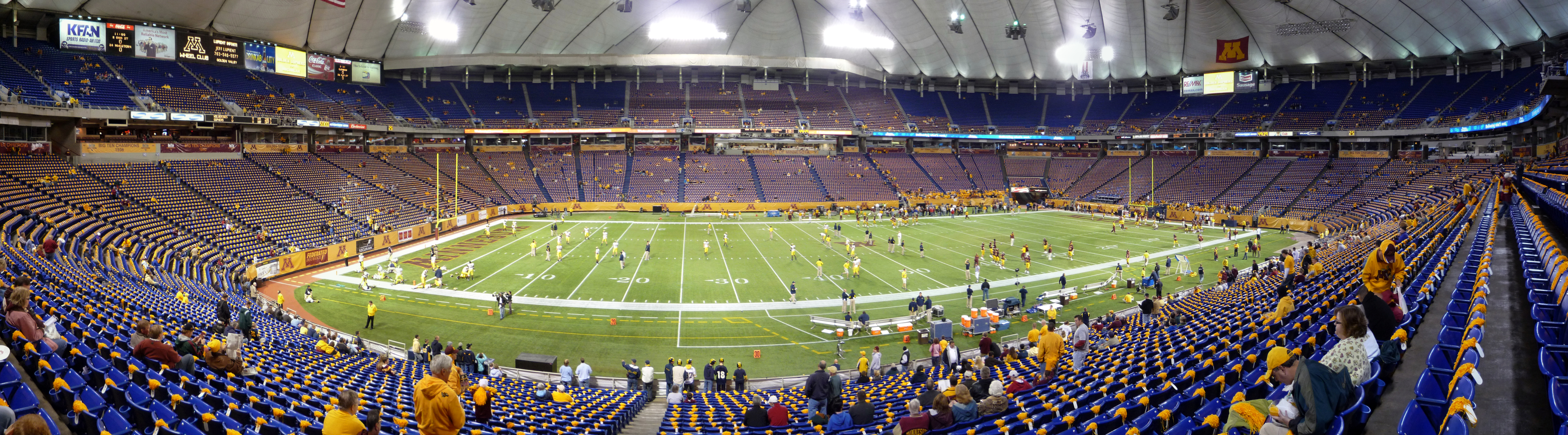 The Metrodome well before the 91st battle for the Little Brown Jug: a college football game between the visiting Michigan Wolverines and the Minnesota Golden Gophers on November 8, 2008. Michigan would win, 29-6; as a result, the Wolverines could claim to have never lost in the Metrodome during the Gophers time there.